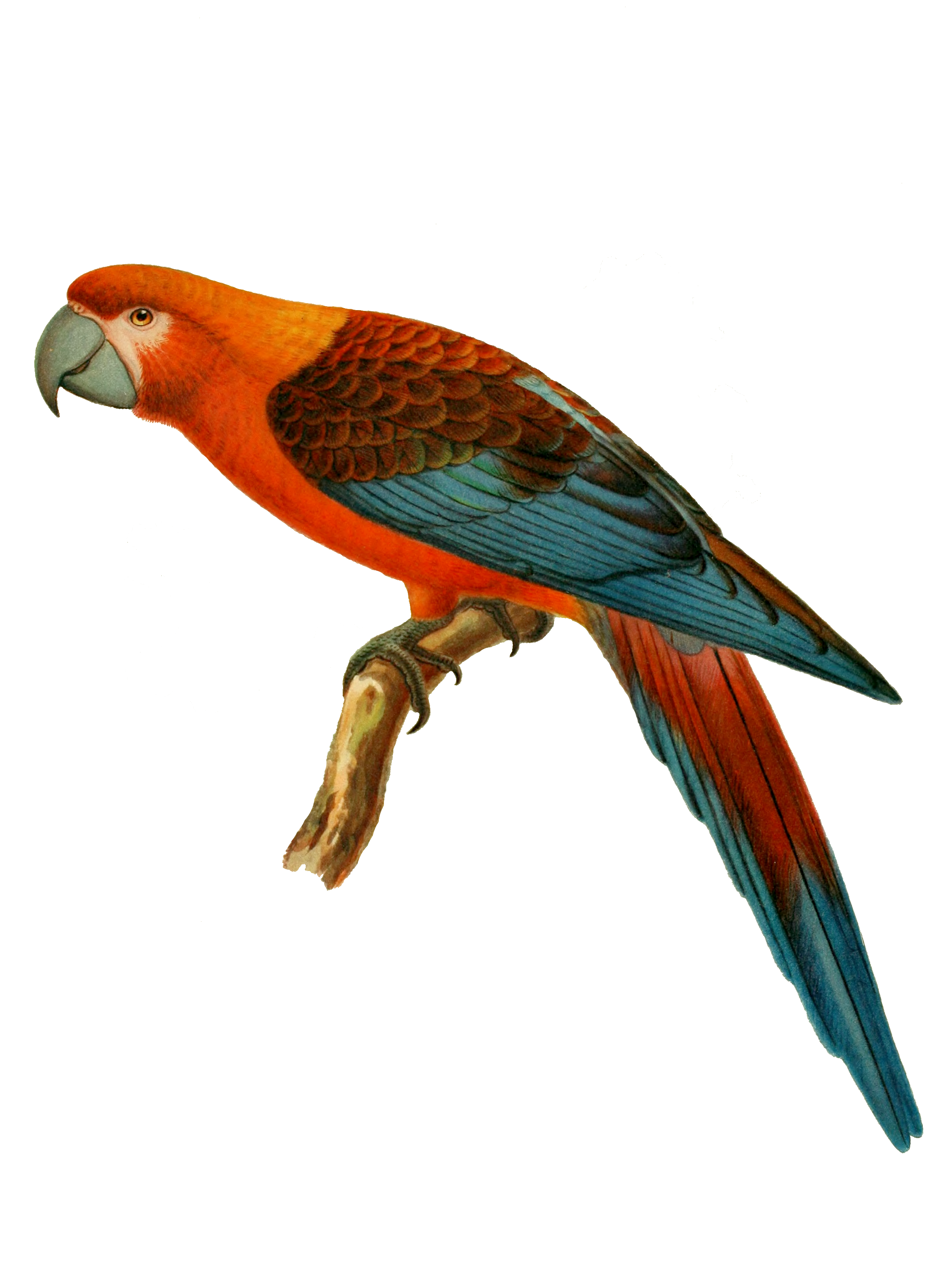 The Cuban Red Macaw, Ara tricolor, is an extinct species of parrot that was native to Cuba and the Isla de la Juventud, an island off the coast of west Cuba.